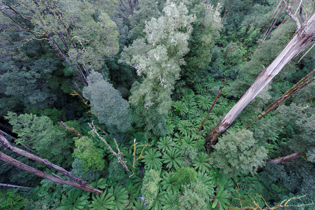 Otway Fly Treetop Walk 2010